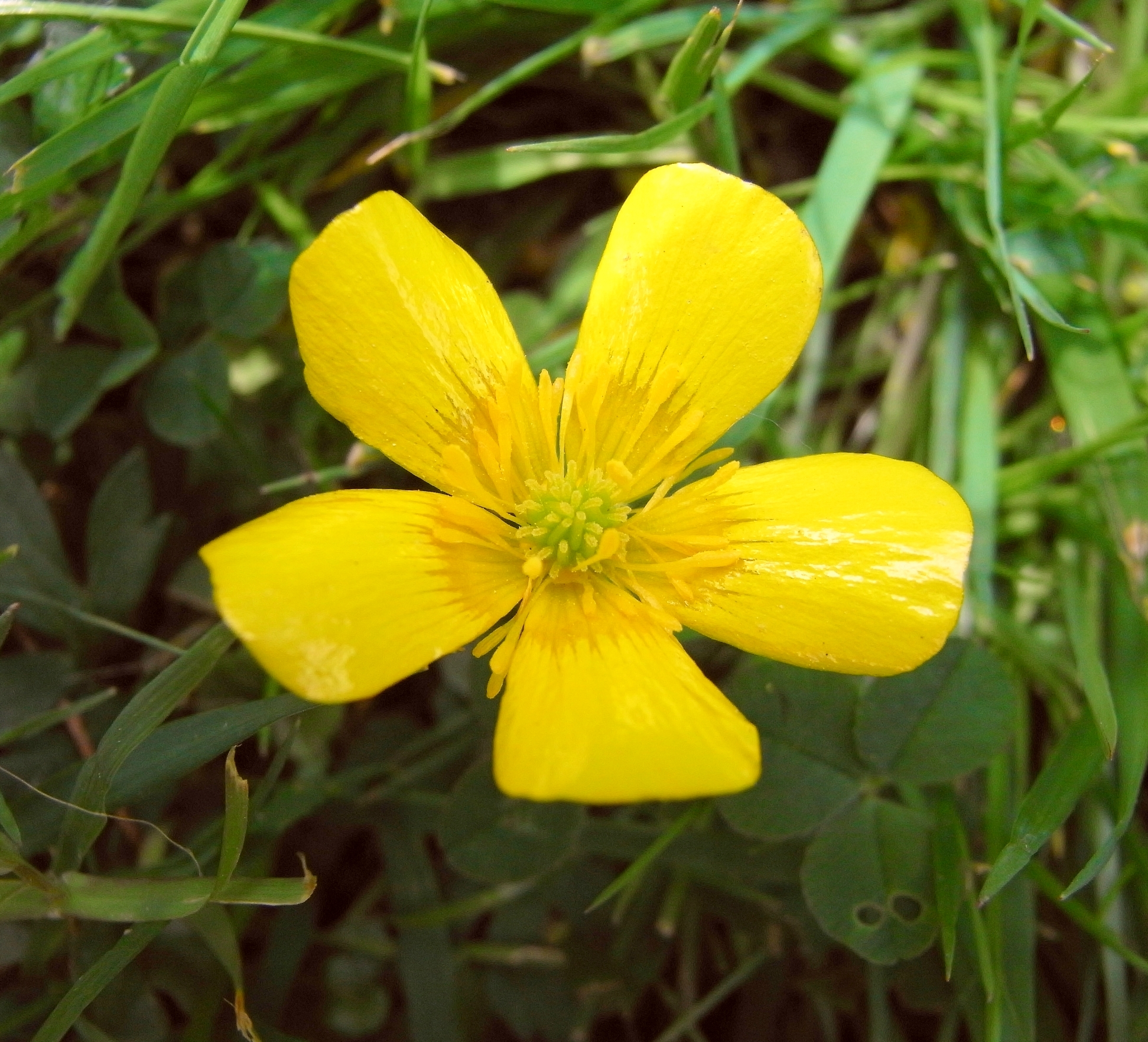 Ranunculus acris